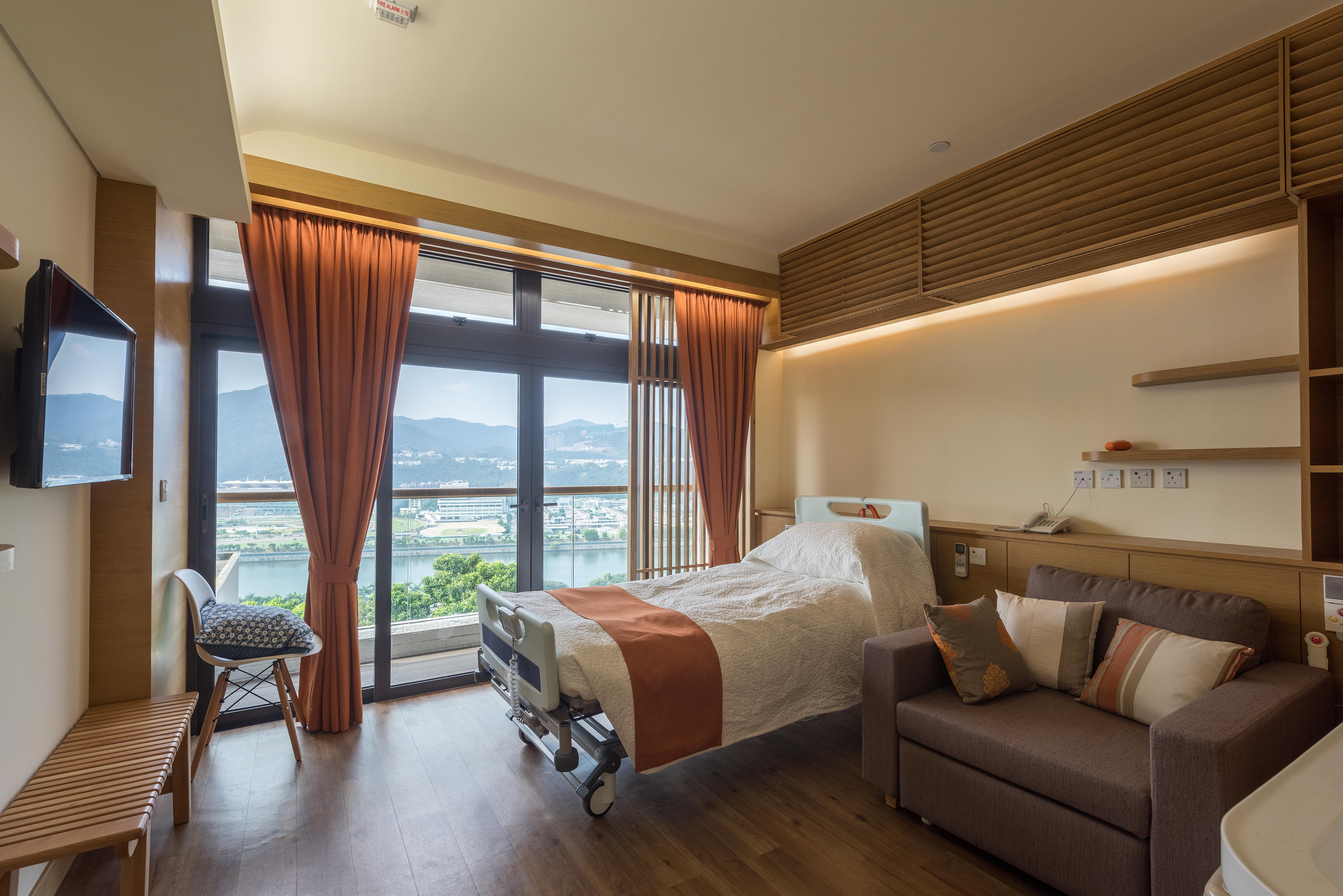 Room